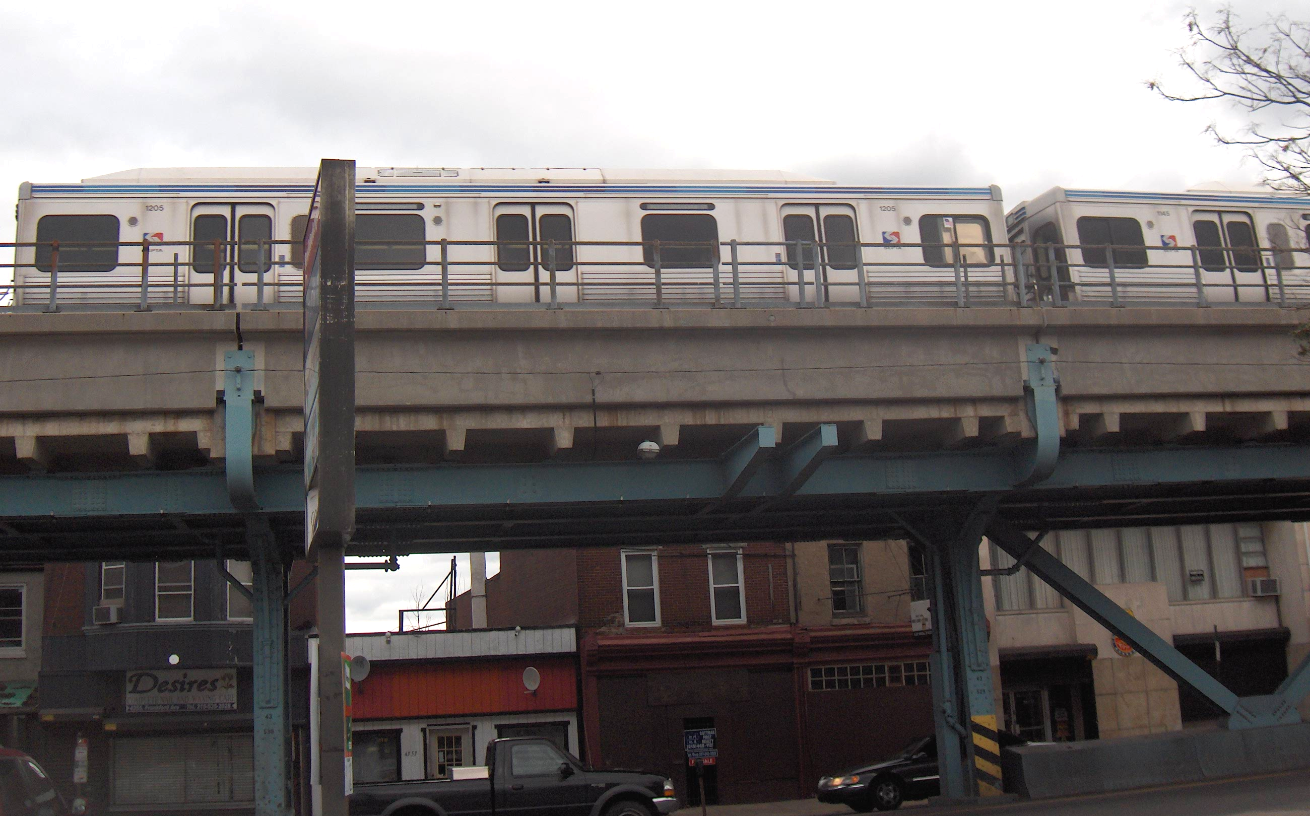 Philadelphia, PA 19124, 4300 block Frankford Avenue, looking east at the Market-Frankford subway/elevated line and a passing southbound train